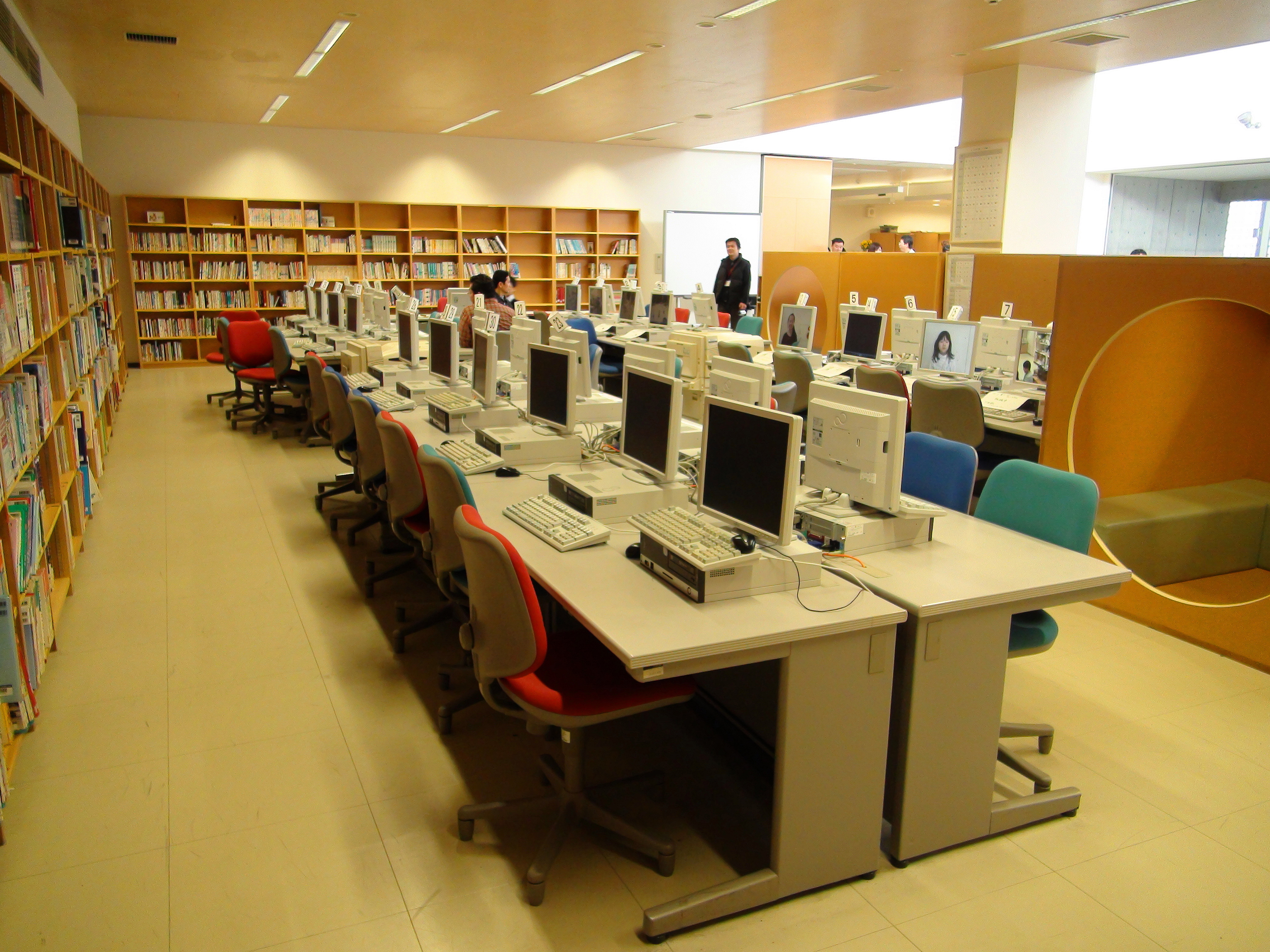 Yamanashi Gakuin Elementary School Media Center（Because it was a school festival, I can photograph it after a security check）